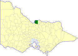 Location of the Shire of Nathalia within Victoria.